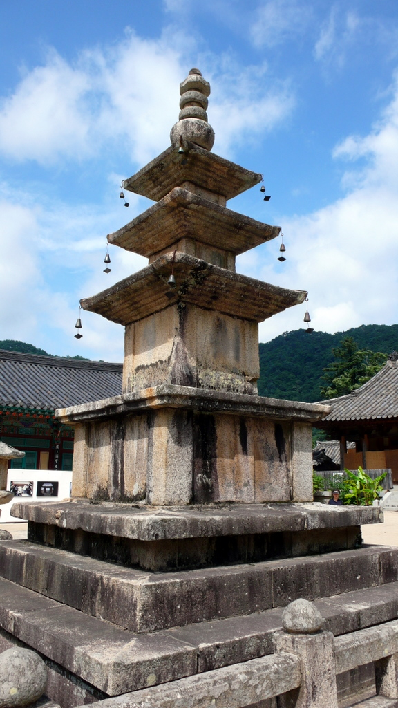 Haeinsa temple, South Korea